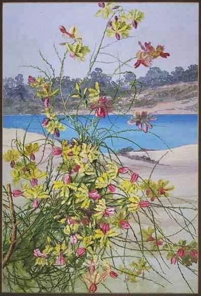 Illustration of Lechenaultia linarioides titled: Lechenaultia linarioides, family Goodeniaceae; and described at [1] as 1 watercolour ; 56 x 38 cm. Context Part of Rowan, Ellis, 1848-1922. Flower and bird paintings [picture] Title from inscription on reverse; signed l.l.